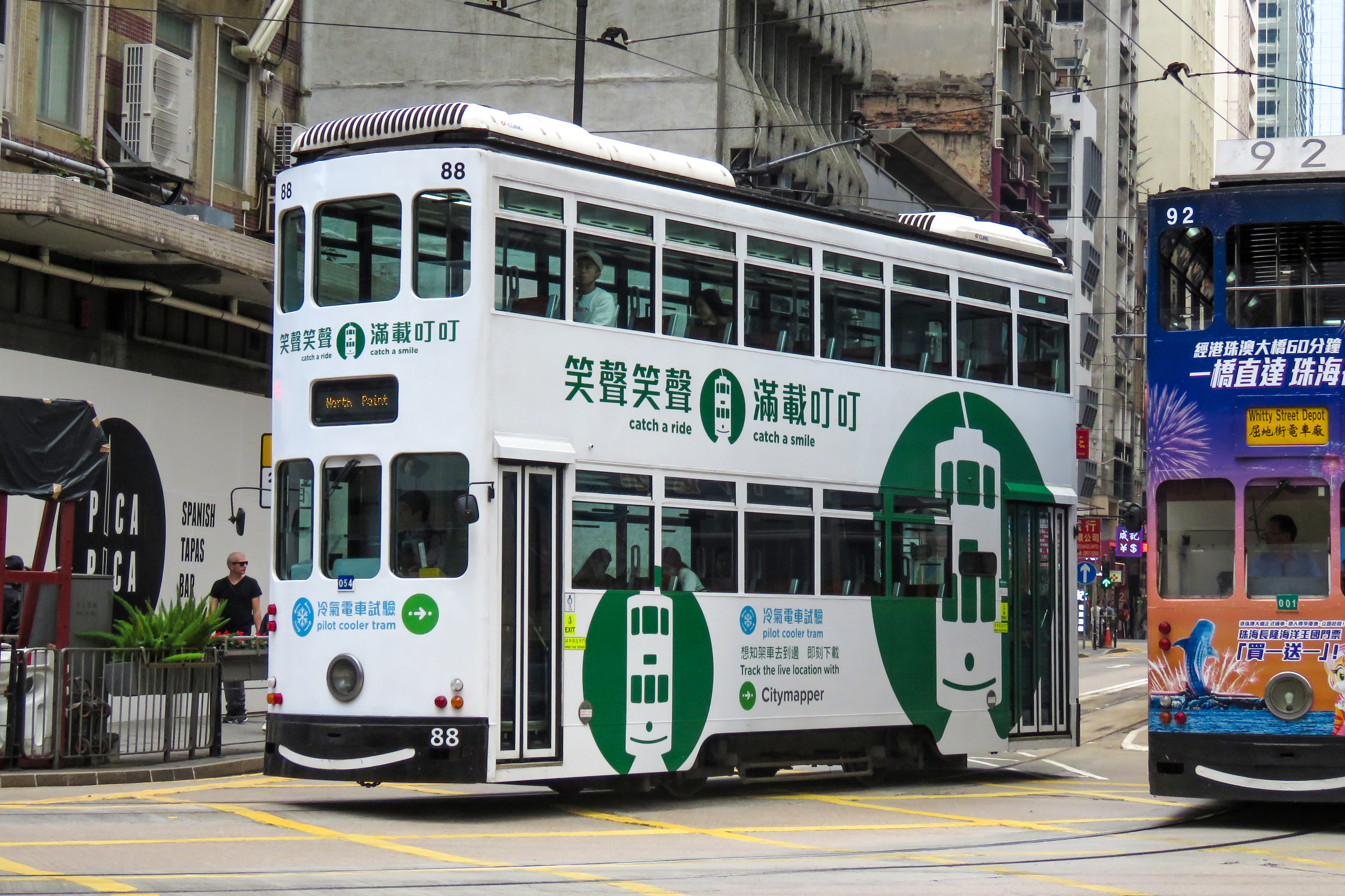 Just finished a ride on this air-conditioned tram. Two trams turning at the same time...